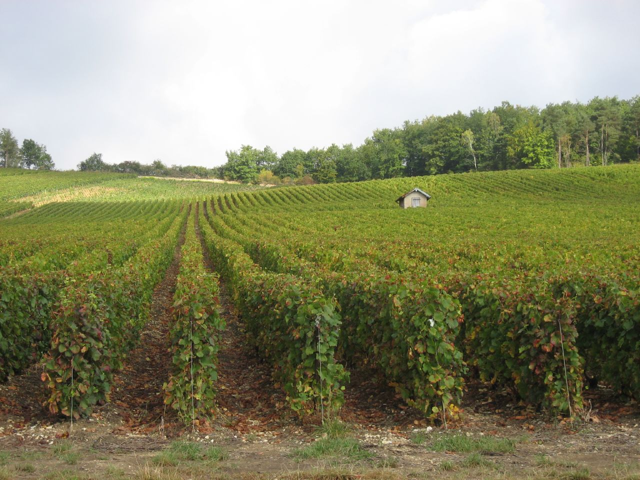 Grapevines planted in the Cirey sur Blaise area in the French wine region of Champagne. The vines are planted in high density very close together.